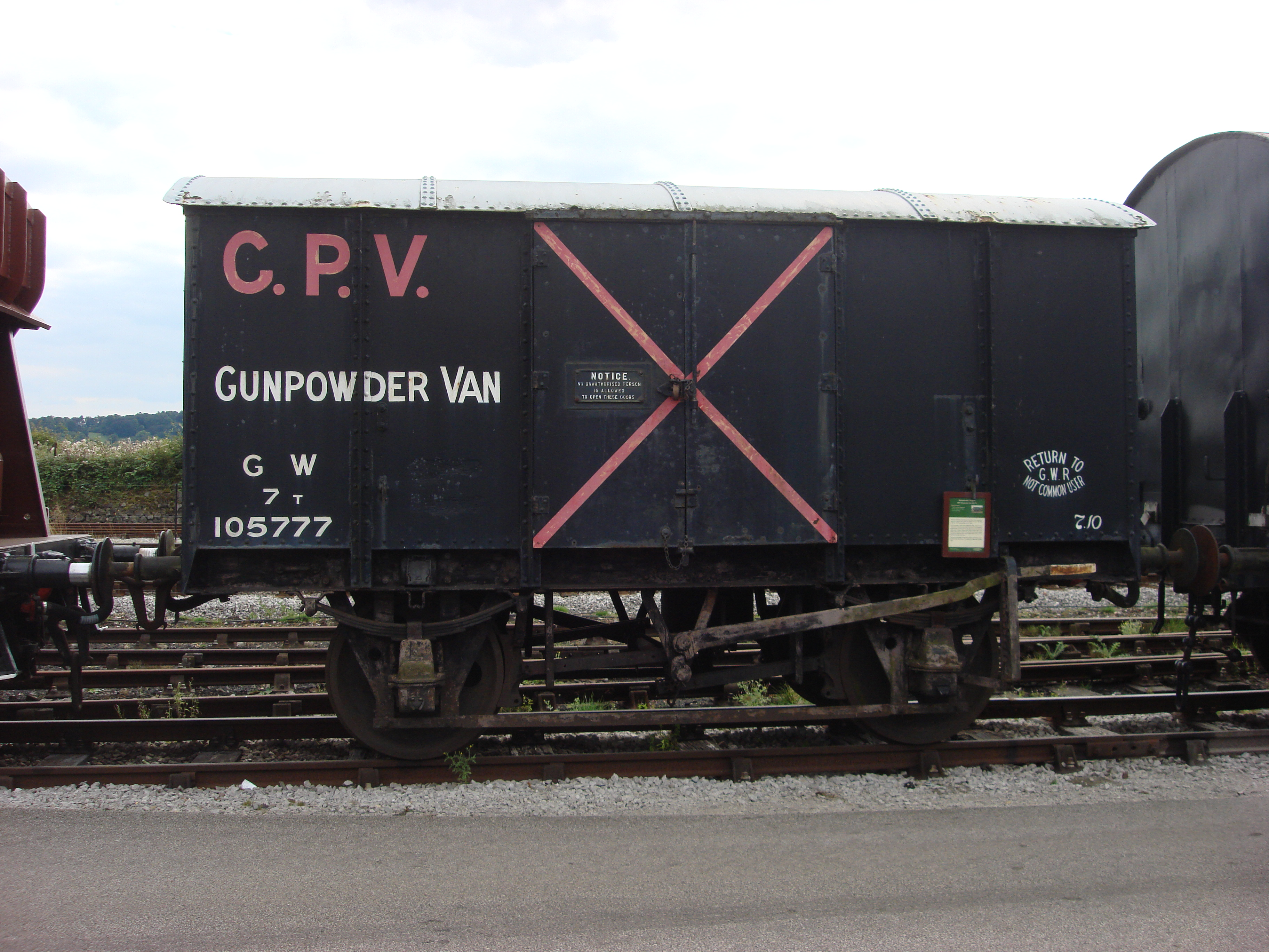 GWR Gunpowder Van No. 105777 at the Buckinghamshire Railway Centre. Built: 1939, Number: 105777, Tare Weight: 11 ton, Type: Gunpowder Van, Builder: GWR Swindon, Wheelbase: 9' 0""